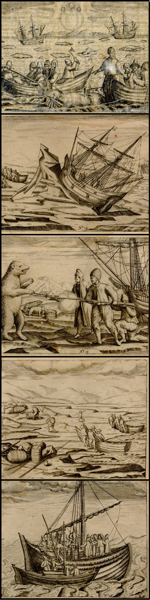 Plates of Willem Barents 3rd voyage